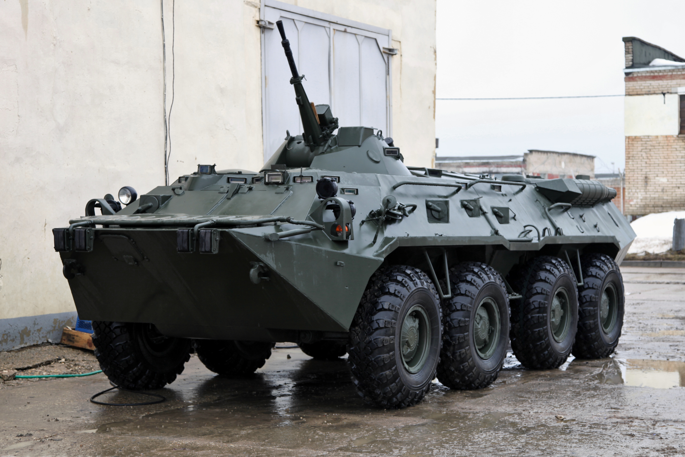 BTR-80 armoured personnel carrier